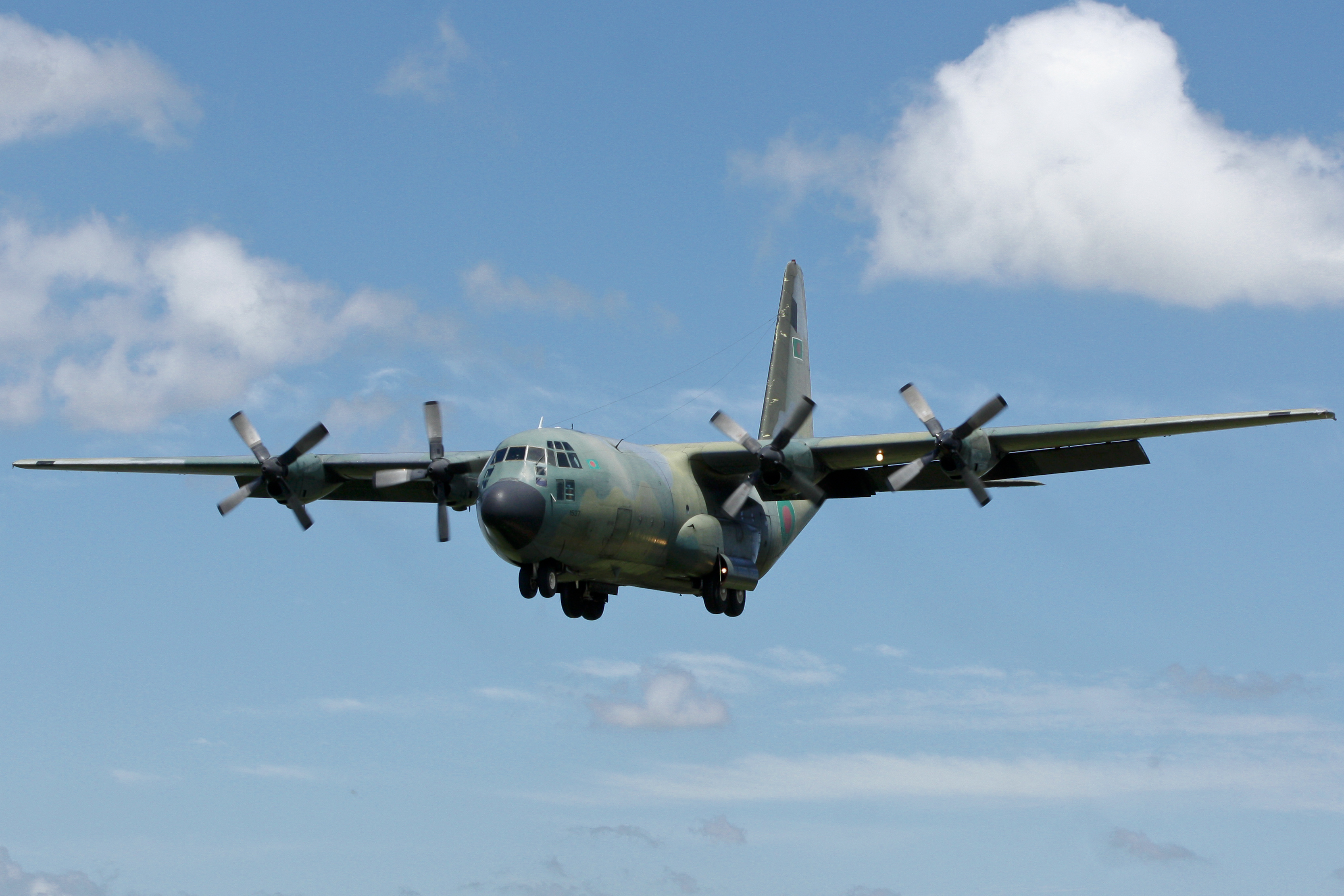 Bangladesh Air Force Lockheed C-130B Hercules S3-AGB returns from its morning mission